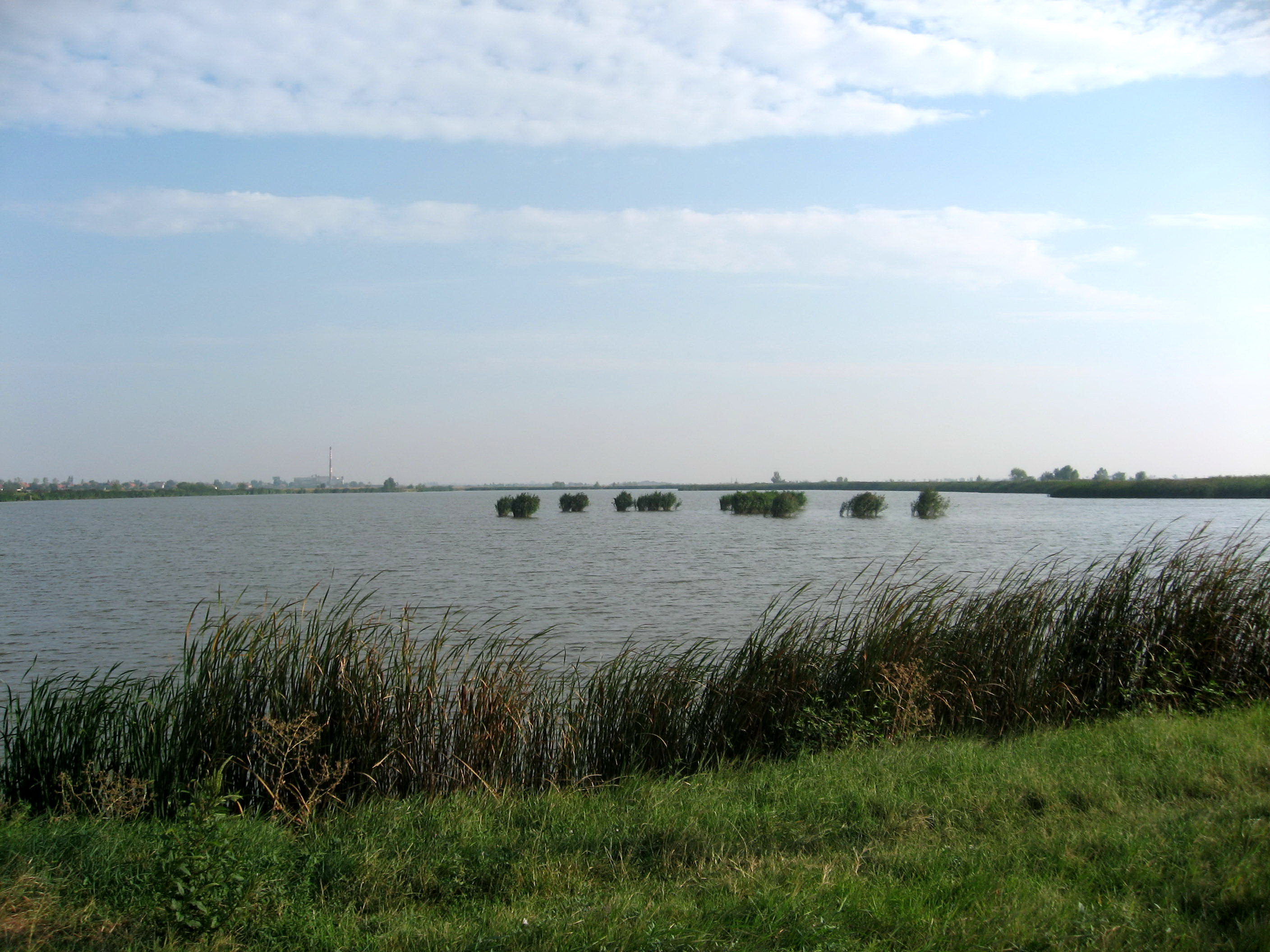 Reservoir by Nădlac